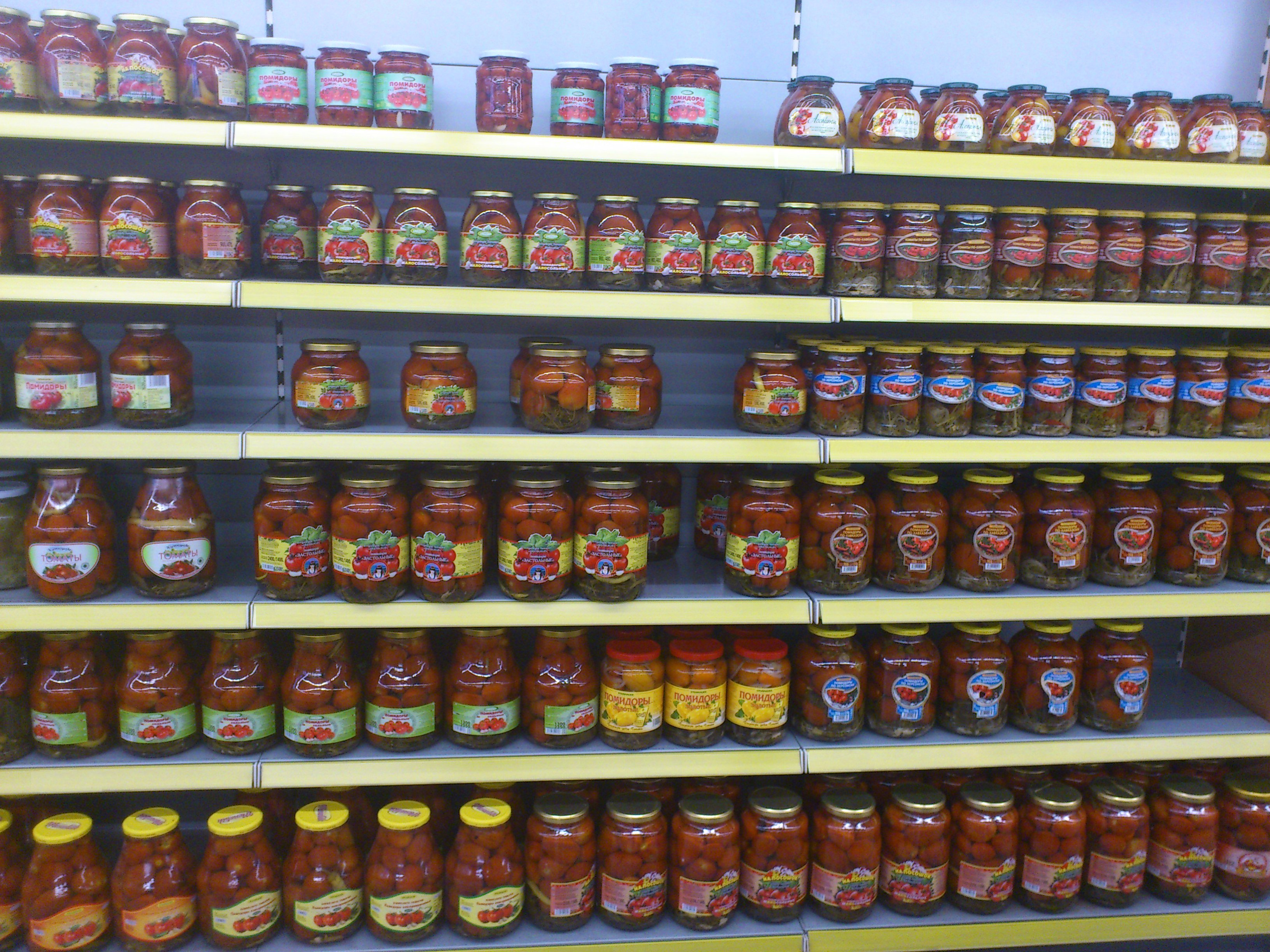 Various sorts of pickled tomatoes in a "Russian" food store (Mix Markt) in Germany